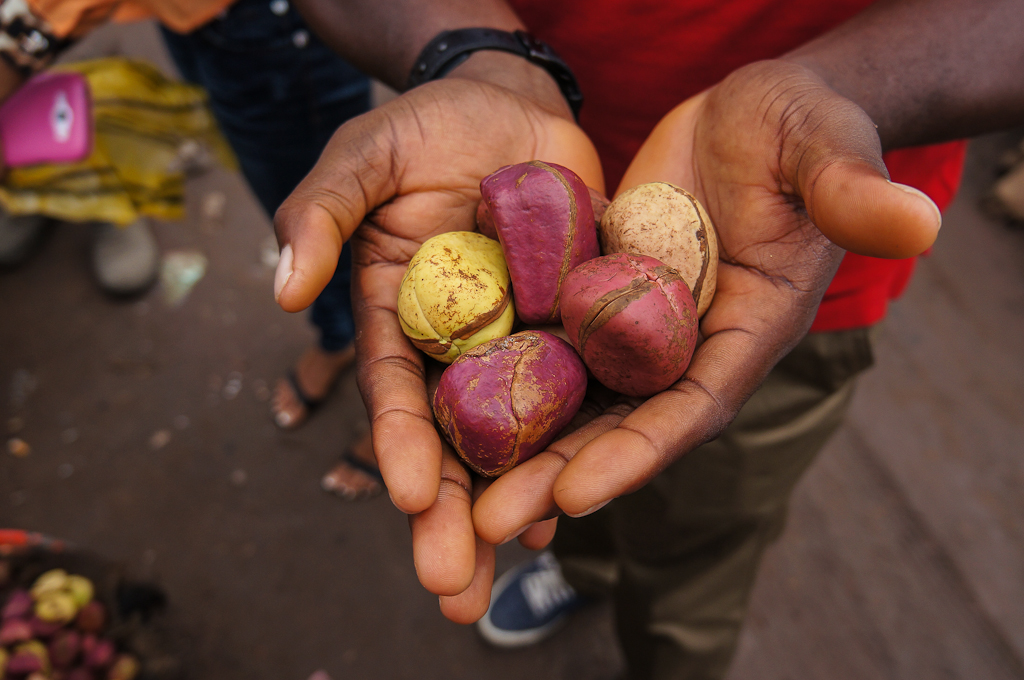 Cola nuts in Lagos, Nigeria